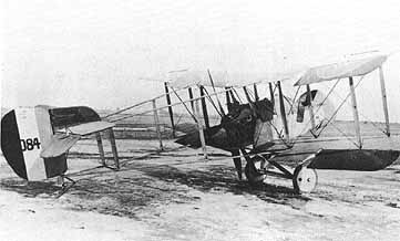 Britische DeHavilland Airco DH-2, 1916 Quelle: public domain The photograph depicts a strut-and-wire-braced, double-bay biplane employing thin, untapered wings. A small nacelle situated on the bottom wing contained the pilot's cockpit and gun in the forward portion and the 100-horsepower Gnome Monosoupape rotary engine in the pusher position in the rear. The horizontal and vertical tail surfaces were mounted behind the engine on an arrangement of four strut-and-wire-braced outriggers, or booms, which extended rearward from the wings. Cutouts in the trailing edges of the upper and lower wings provided clearance for the rotating propeller, which had four blades to minimize the extent of the cutouts and reduce the required spacing of the outriggers. The smaller diameter four-blade propeller, as compared with a two-blade propeller capable of absorbing the same power, also reduced the length of the landing gear.